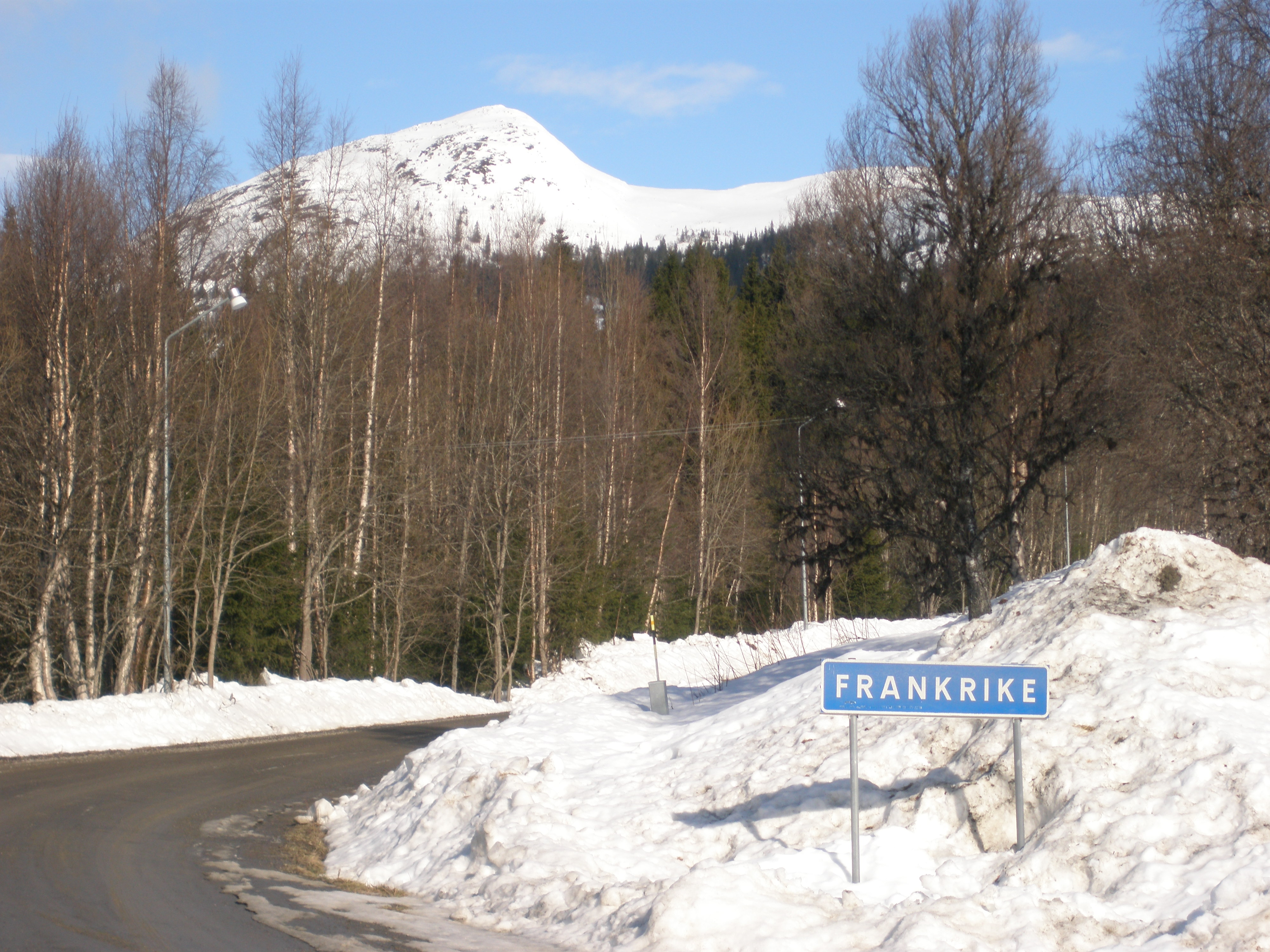 Frankrike, Offerdal, Krokoms kommun, Jämtland, Sweden.